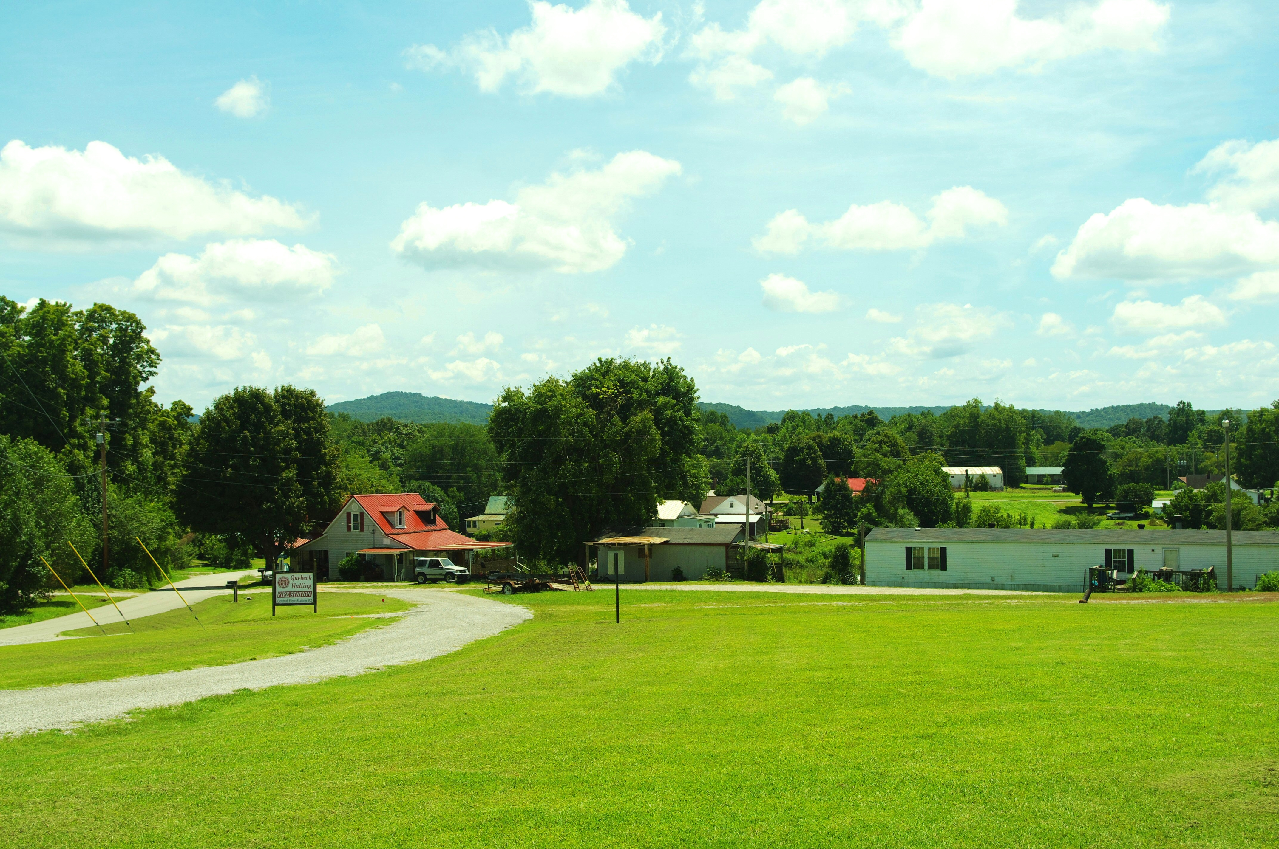 The Quebeck community in White County, Tennessee, United States, viewed from the Quebeck Community Center.